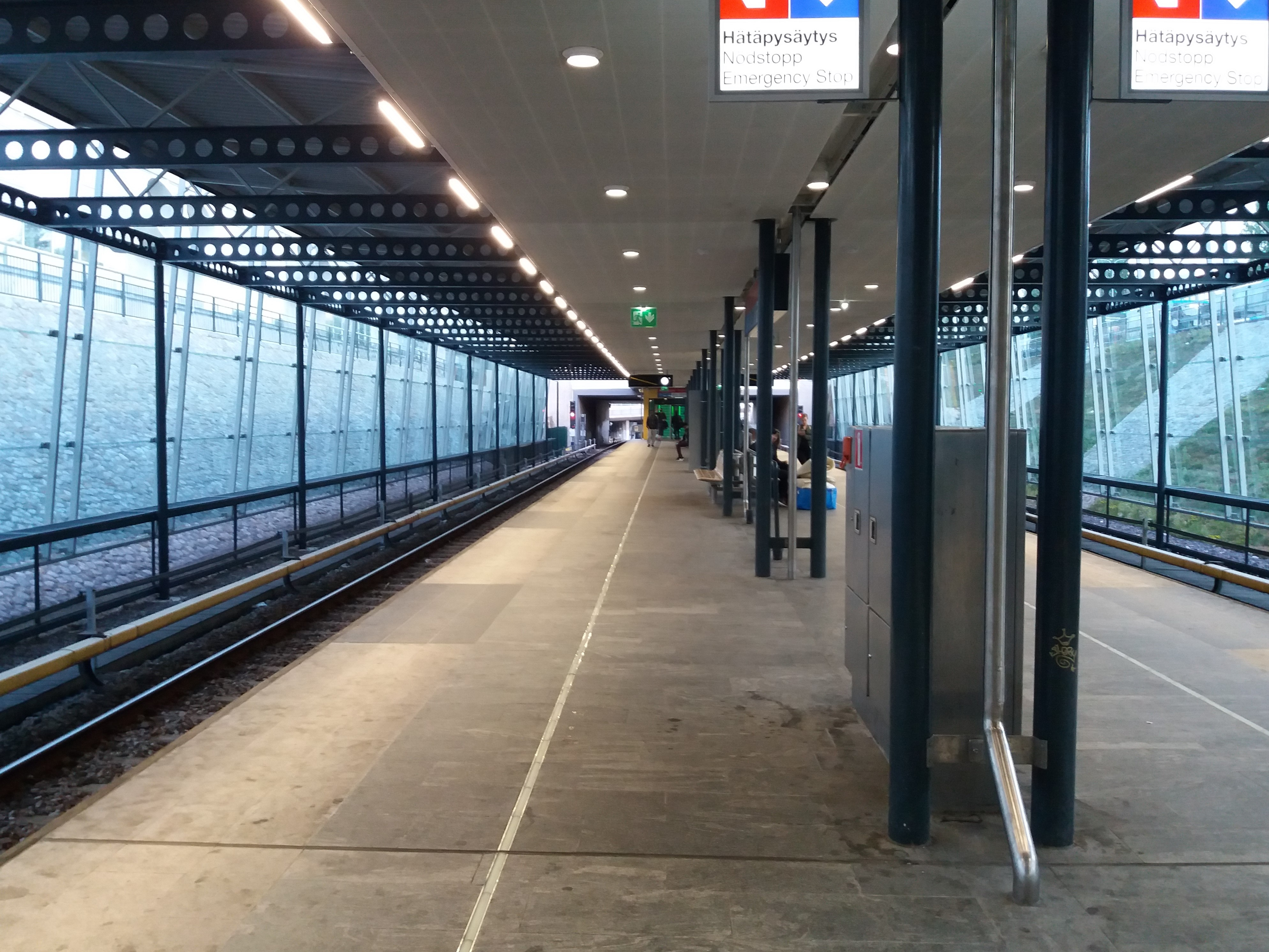 Myllypuro metro station platform, look to south.